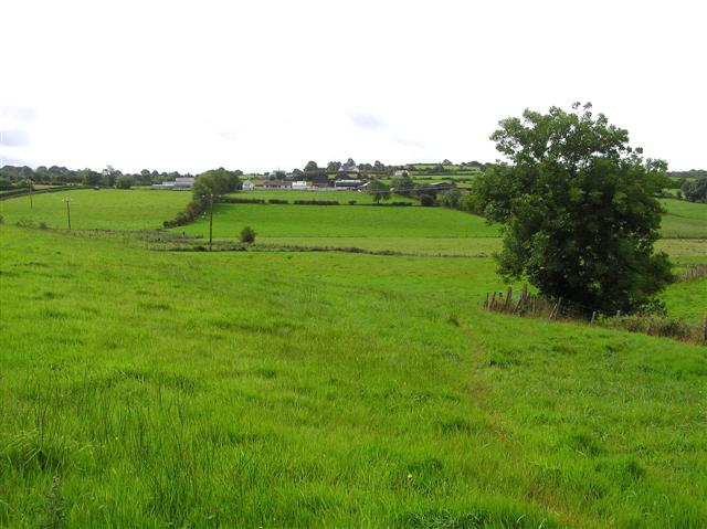 Garvaghullion Townland Looking south